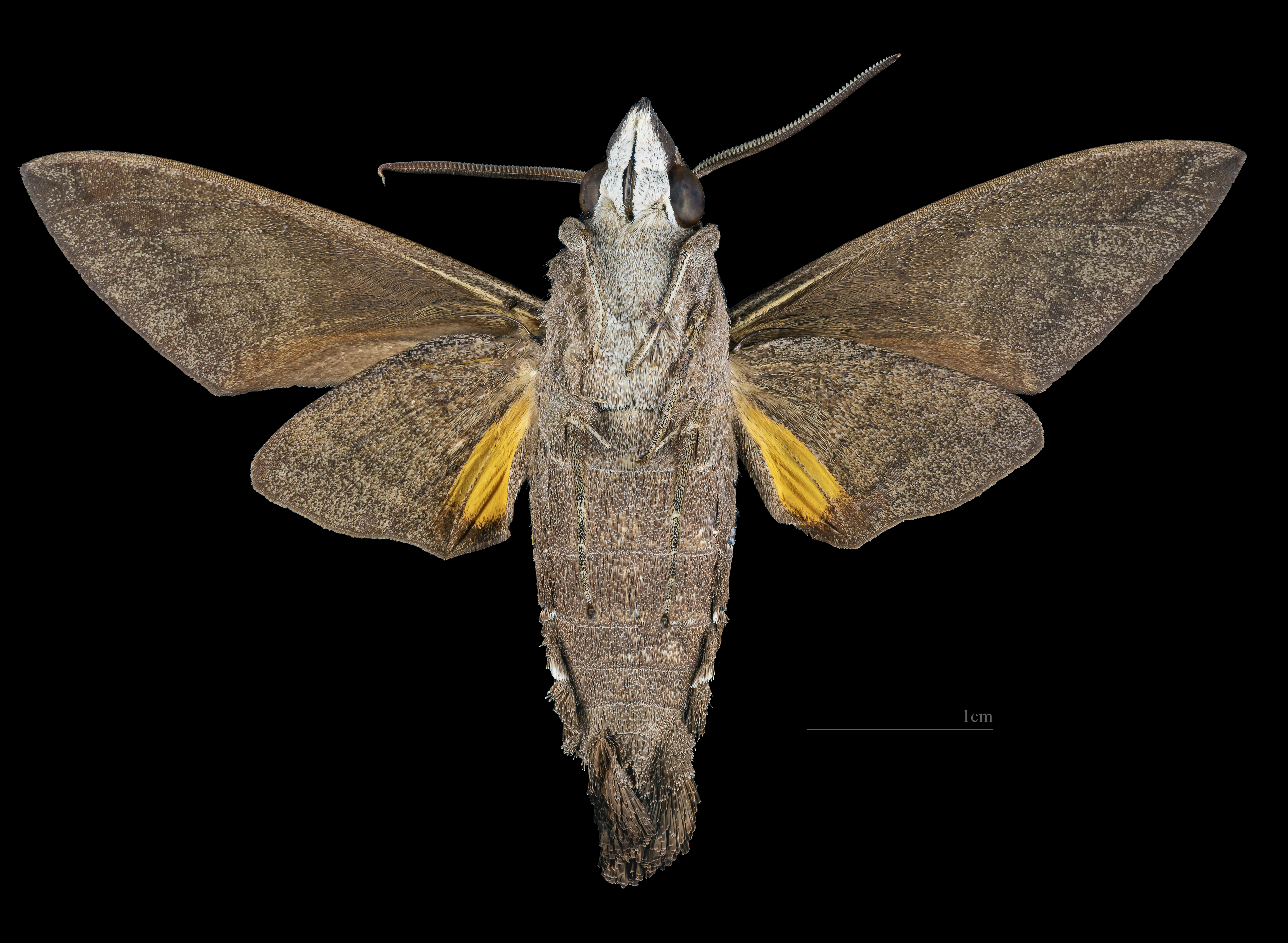 Macroglossum hemichroma - △ Ventral side Collection of the Mathematician Laurent Schwartz